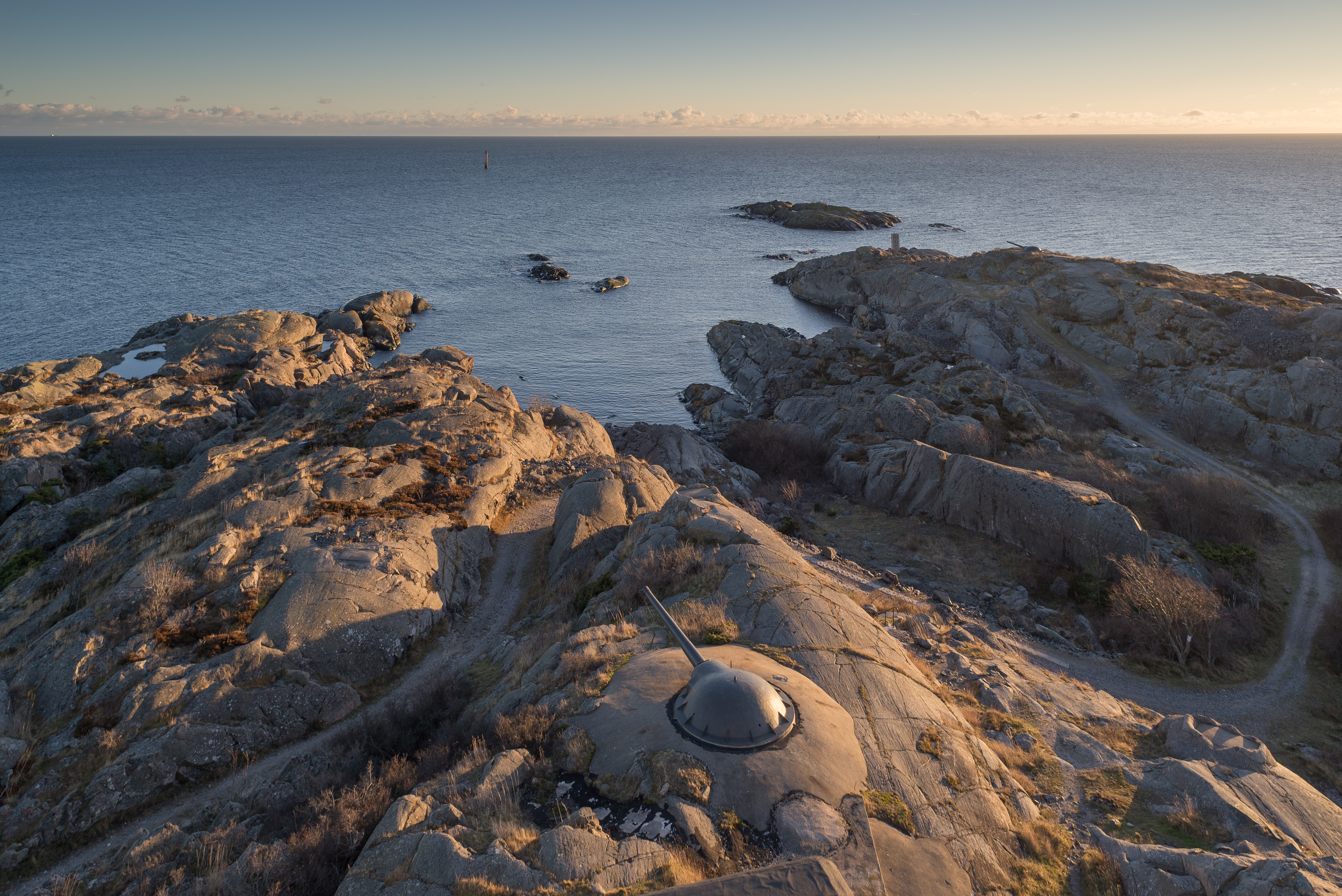 South view from Landsort lighthouse towards the south part of the island Öja (know as Landsort) and the historic Landsort battery built in the 1930s. The battery was armed with three former shipguns mod. 98, a command bunker and anti-aircraft Bofors guns. The battery was one of almost 50 batterys in the so called coastline chain (Havsbandslinjen) in Stockholm archipelago was built 1936 - 1943. It was replace by the new 12 cm ERSTA-battery in the 1970s.